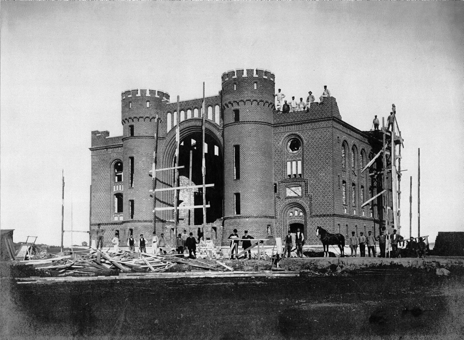 The labour & horse building the muncipality power plant in Landskrona Sweden